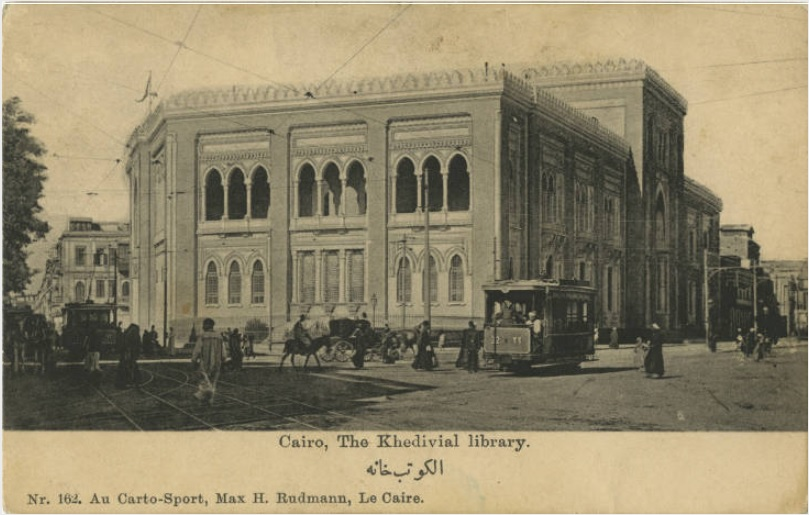 Postcard of the Khedival (now National) Library of Egypt